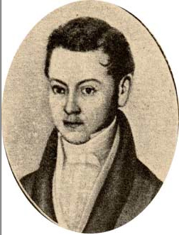 Bulatov Alexander Michaylovich senior (1793 — 19.1.1826). Colonel, commander 12 hunting regiment.